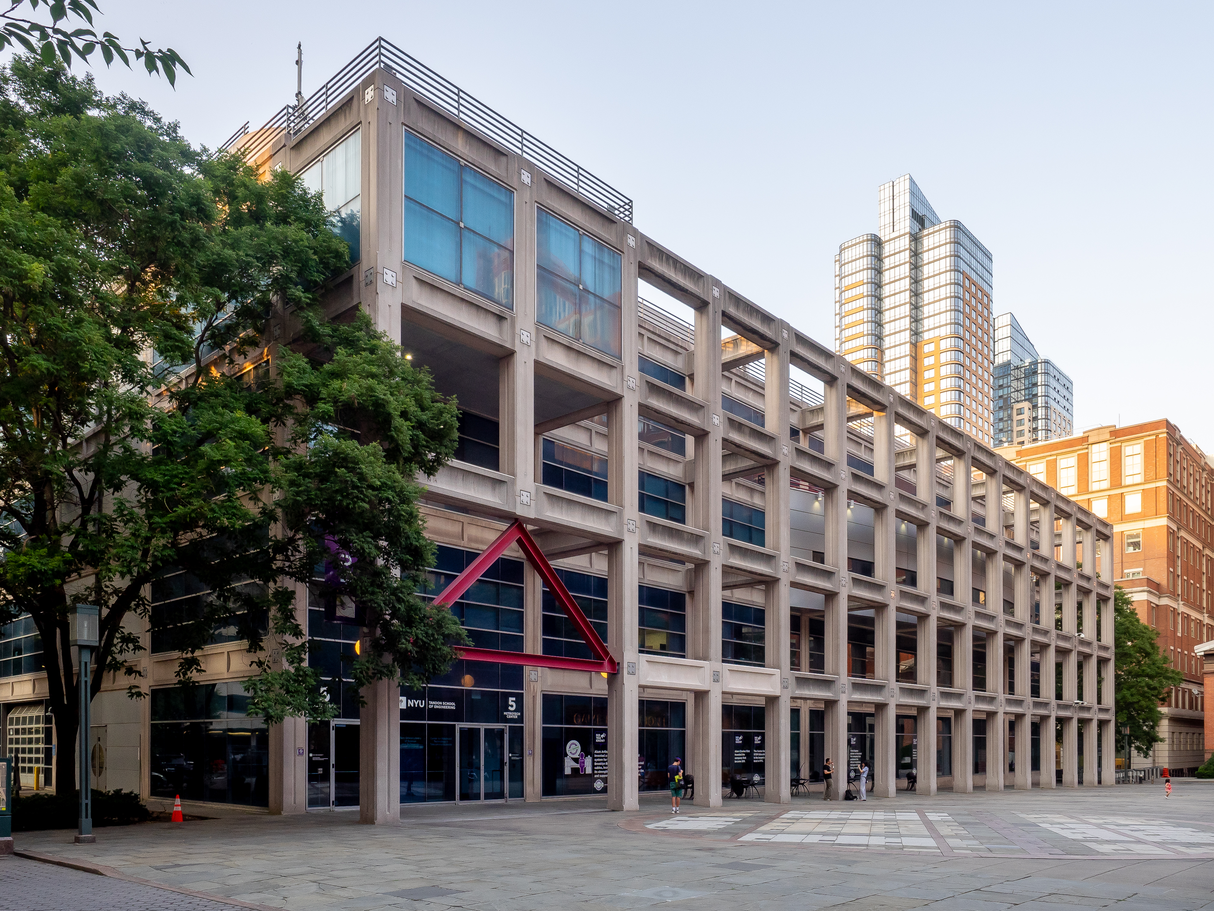 Downtown Brooklyn, Brooklyn, New York City